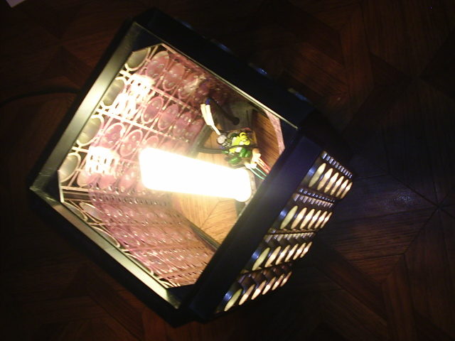 Old USSR nightlamp (top cover - offloaded) after modernisation.